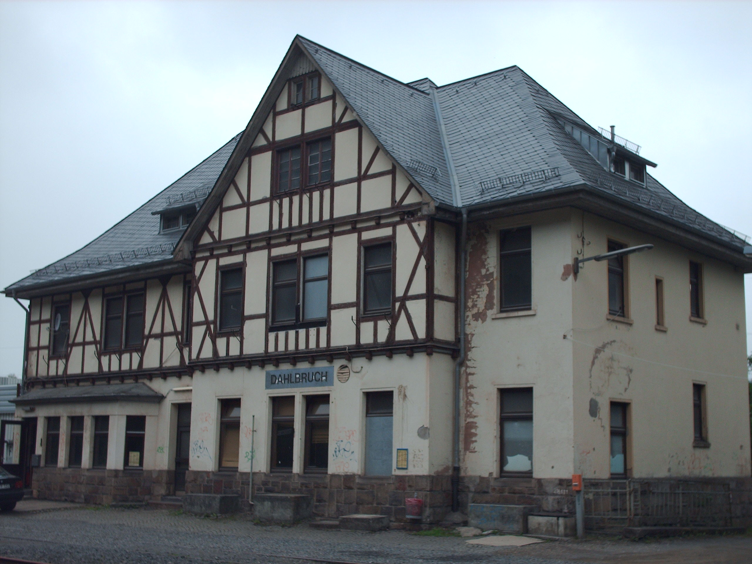 Dahlbruch station, Kreuztal, Germany check usage